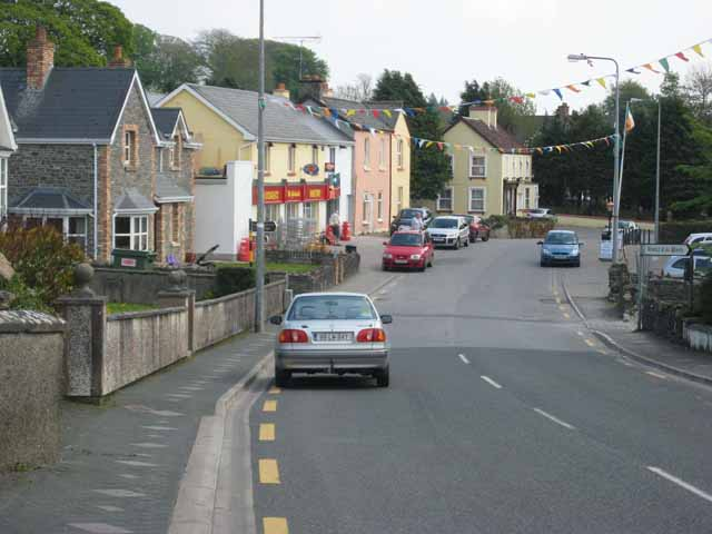 Main Street, Dromahair The R288 passes through this attractive large village. One of two shops can be seen along the street. Not sure why the flags are out.